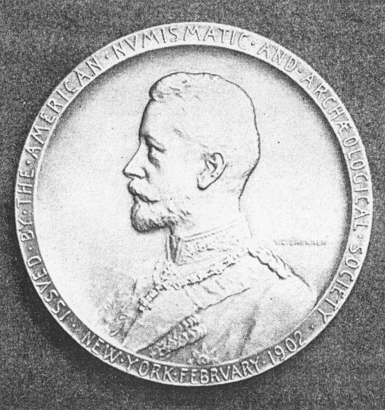 Photograph of a portrait medal designed by Victor David Brenner in commemoration of the visit of Prince Henry of Prussia in 1902